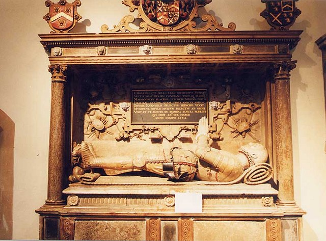 St Thomas, Newport - Alabaster monument to Sir Edward Horsey (d.1582) recumbent effigy on a half-rolled-up map, (affinities with the later monument of Sir John Oglander in Brading Church IOW) strap work background, flanked by 2 columns, crowned by 3 achievements. (listed building text). Canting arms of Horsey: Azure, three horse's heads and necks couped or bridled argent (The British Herald; Or, Cabinet of Armorial Bearings of the Nobility ... By Thomas Robson[1])